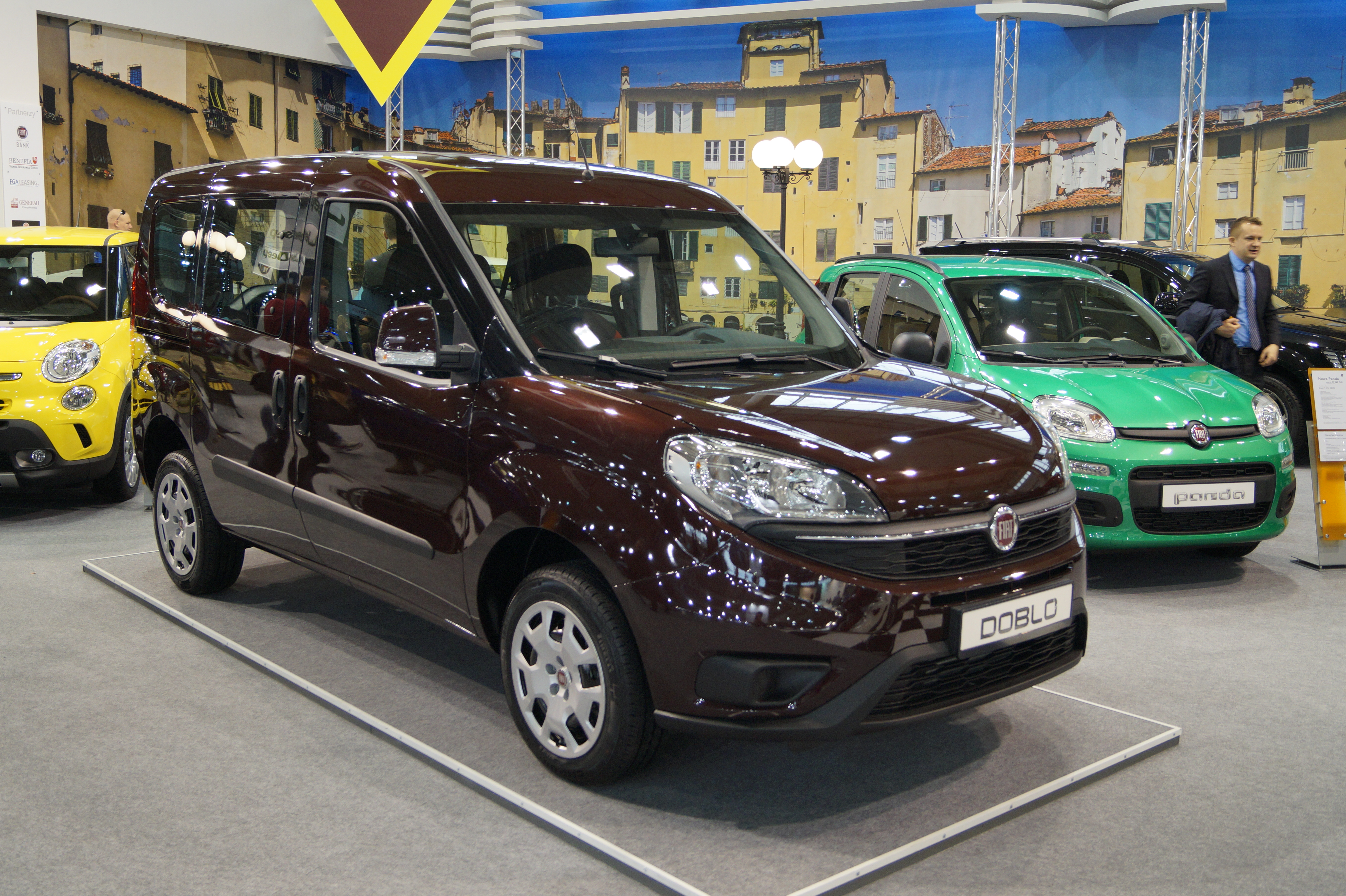 The making of this document was supported by Wikimedia Polska Association, within Wikigrant no. WG 2015-19. FIAT Doblò na Motor Show Poznań 2015